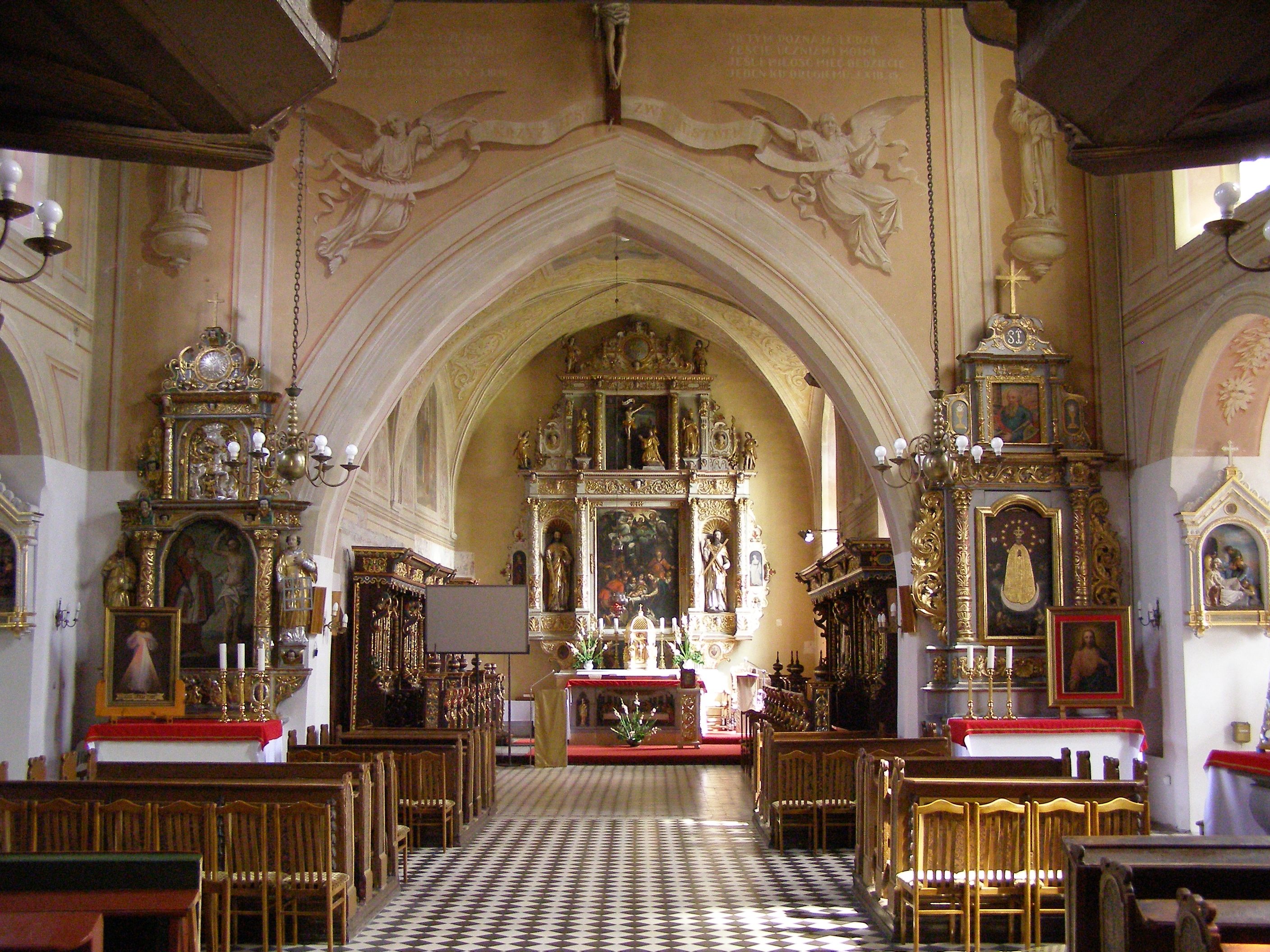 Nieszawa - interior of the St. Hedwig church